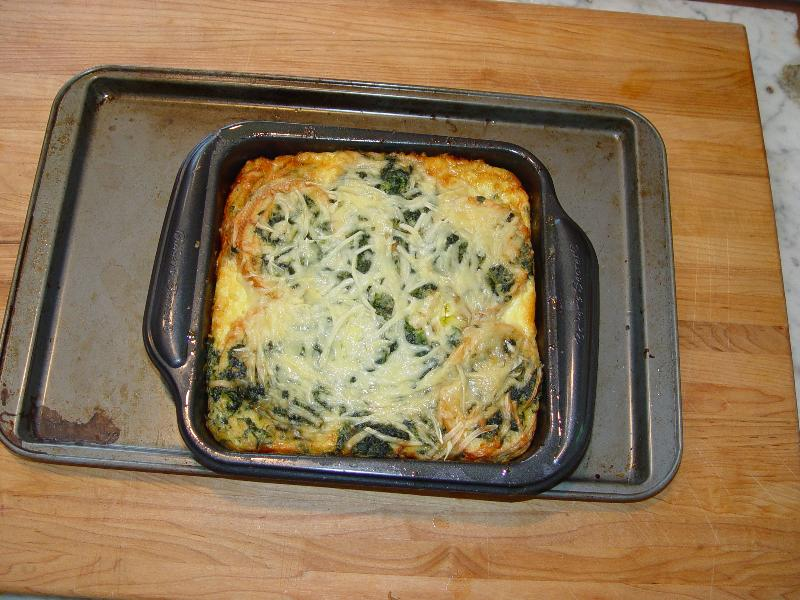 Breakfast Strata - eggs, spinach and gruyère cheese